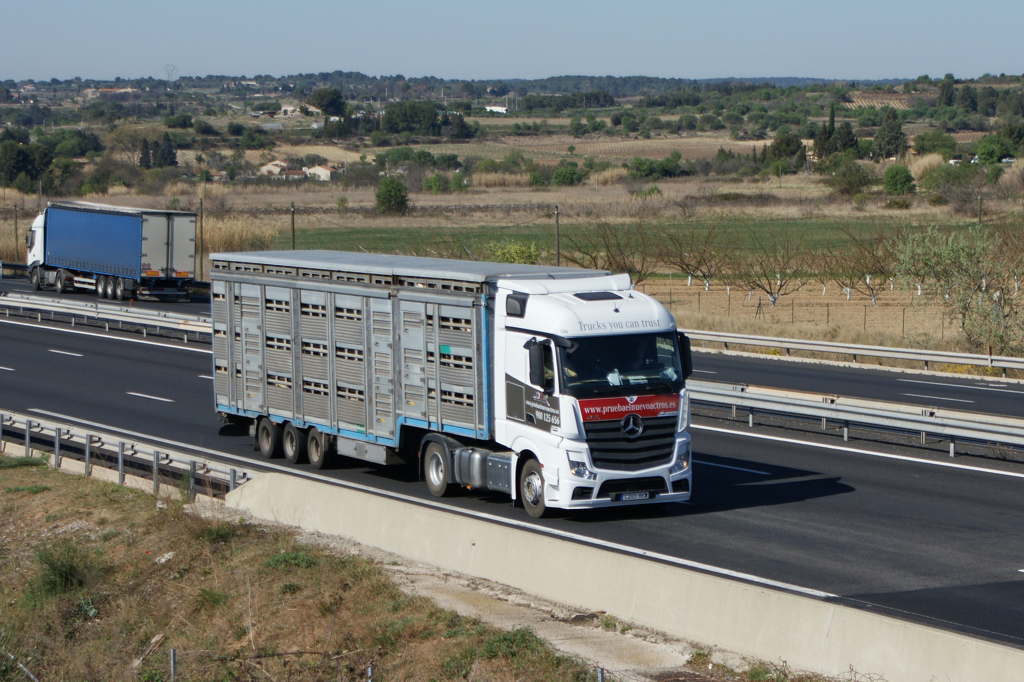 Livestock transport Mercedes-Benz Actros